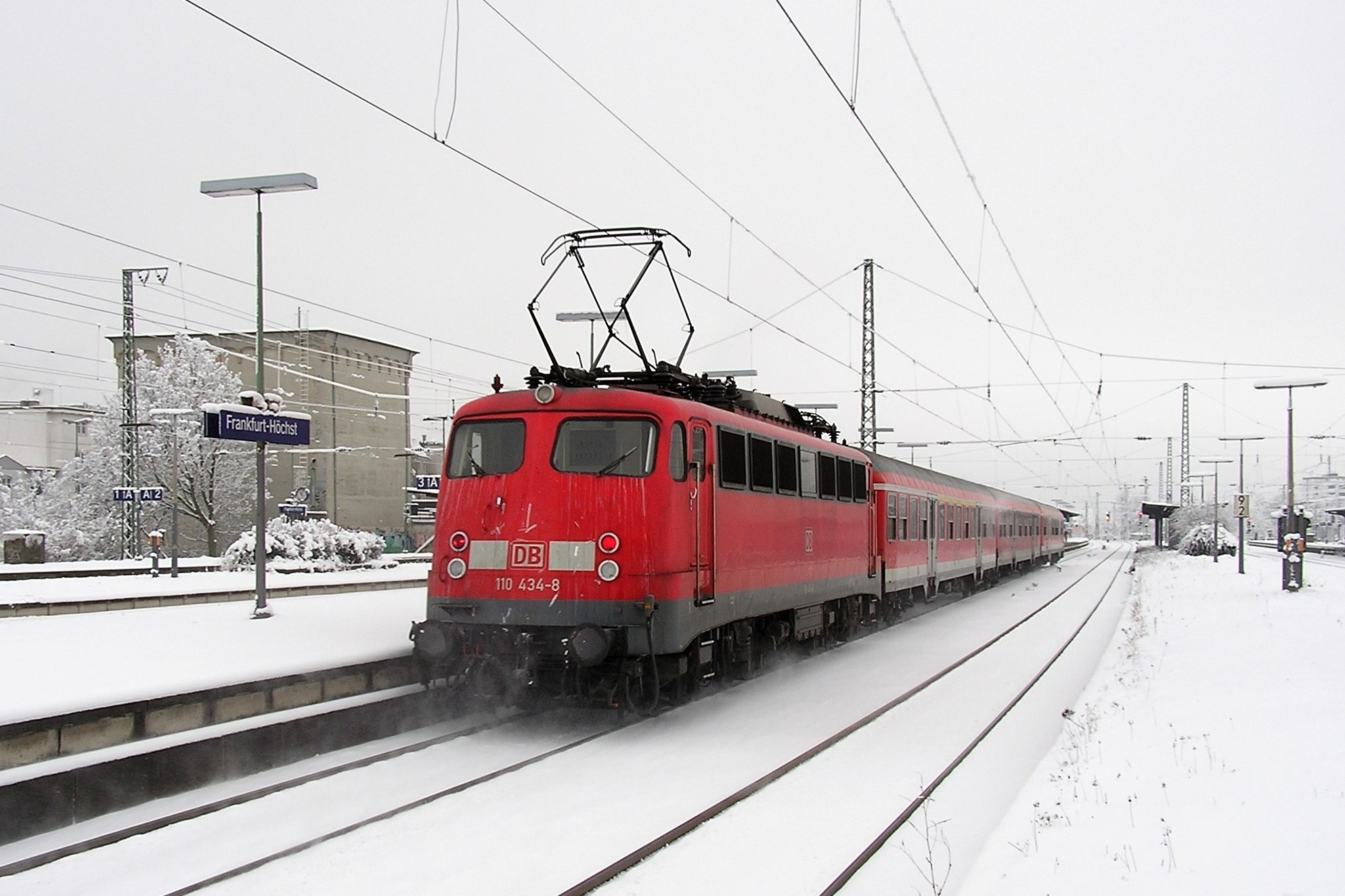 An E 10 pushes some n-railcars into the station Frankfurt-Höchst